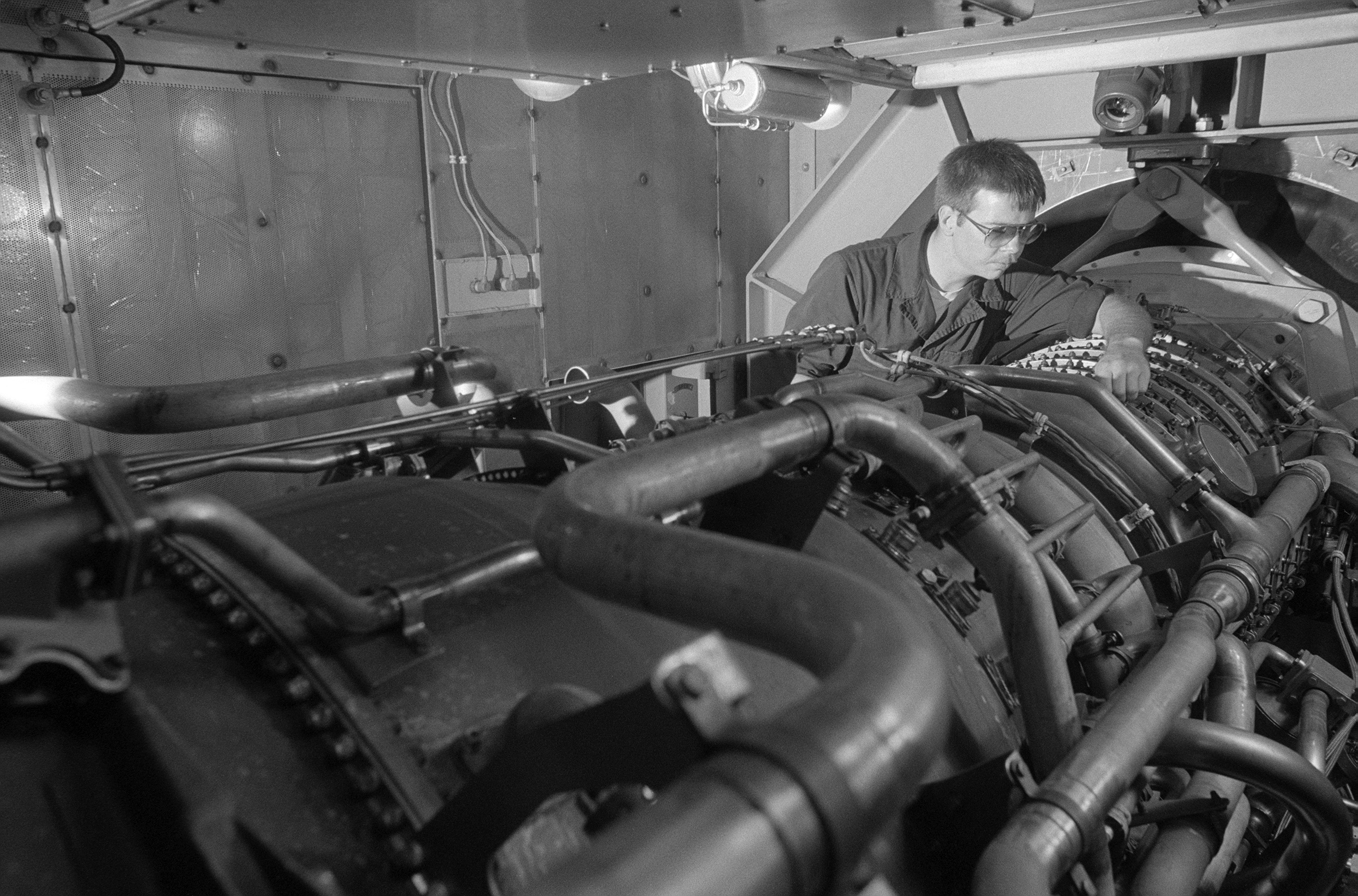 Persian Gulf. A gas turbine systems technician checks the bushings on the variable stator vanes on one of the gas turbine engines aboard the guided missile frigate USS FORD (FFG 54).